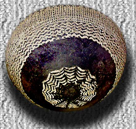 A Prehistoric earthenware bowl, part of a beaker-culture pottery group dated in the early Bronze Age. It was part of a funerary equipment.